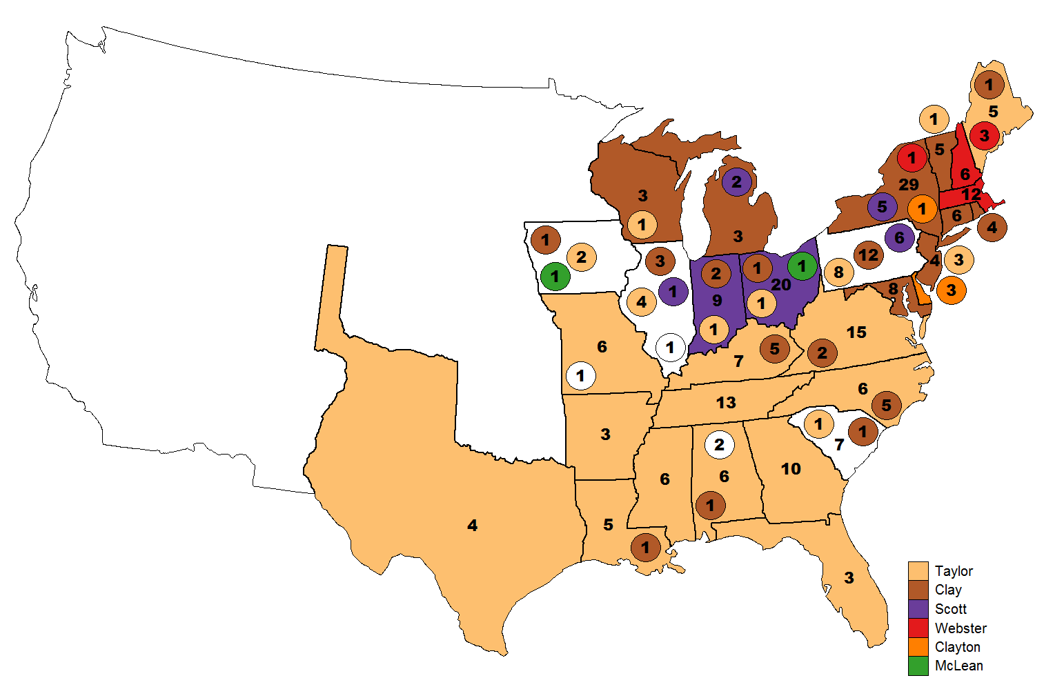 Results by State Delegation of the 1st Ballot for the 1848 Whig Party Presidential Nomination.